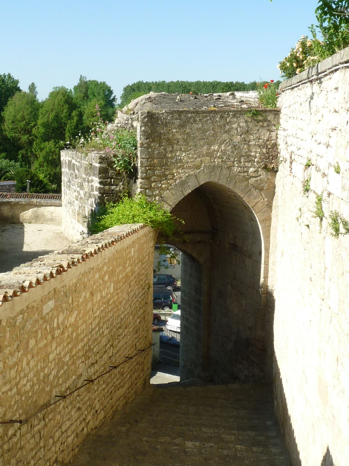 old castle and keep of Montignac, Charente, SW France